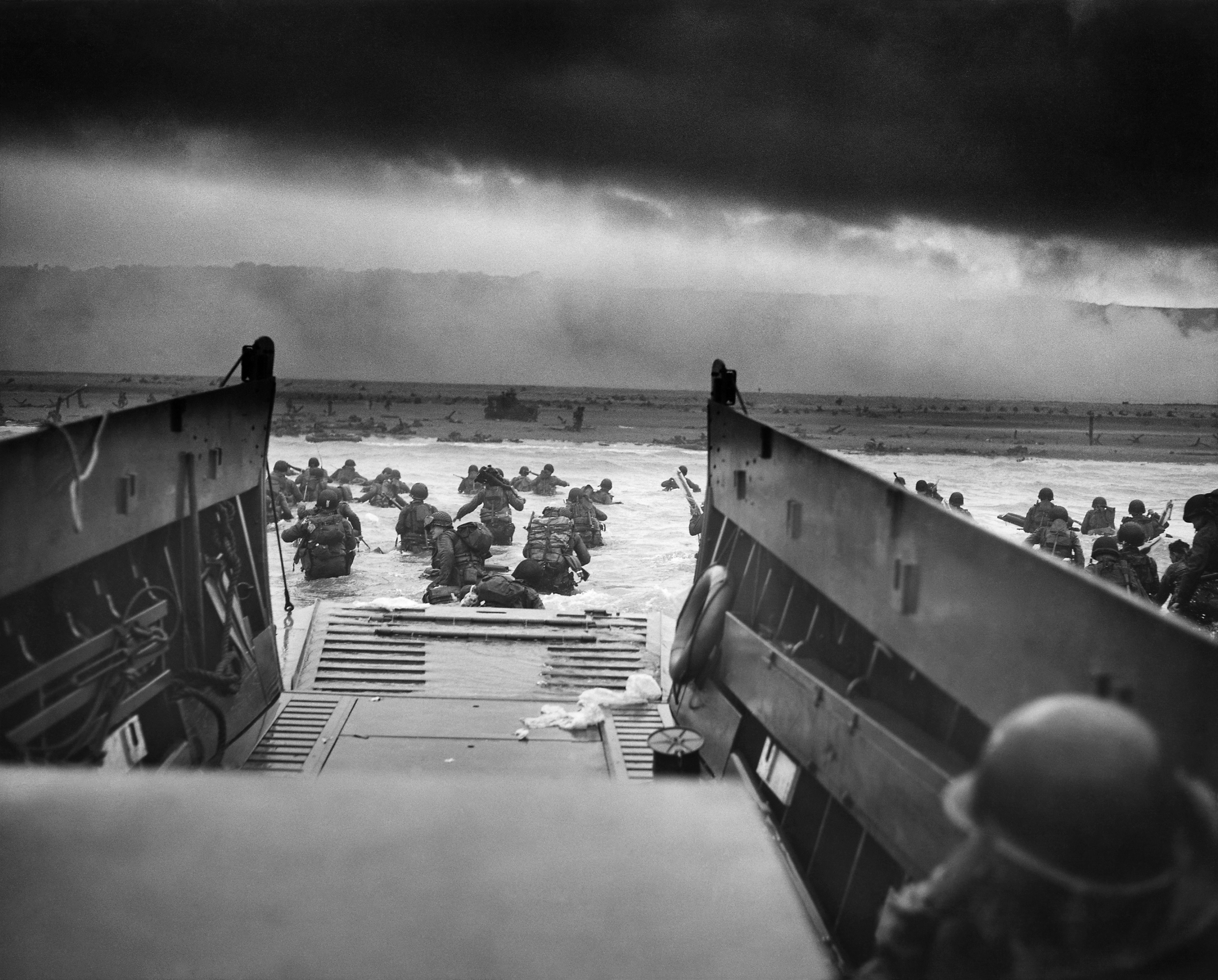 A LCVP (Landing Craft, Vehicle, Personnel) from the U.S. Coast Guard-manned USS Samuel Chase disembarks troops of Company E, 16th Infantry, 1st Infantry Division (the Big Red One) wading onto the Fox Green section of Omaha Beach (Calvados, Basse-Normandie, France) on the morning of June 6, 1944. American soldiers encountered the newly formed German 352nd Division when landing. During the initial landing two-thirds of Company E became casualties.